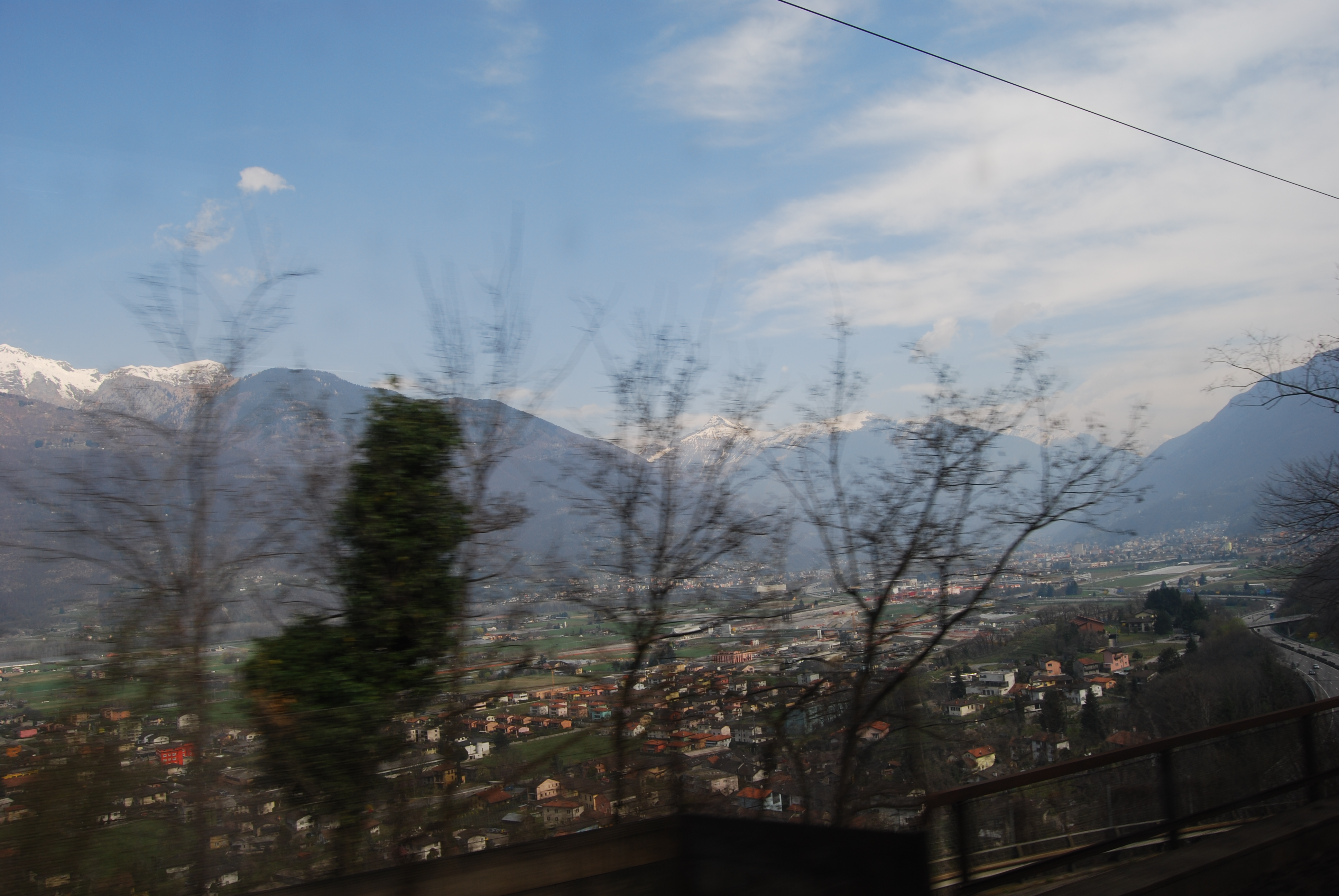 Sant’Antonino, canton of Ticino, SwitzerlandEsperanto: Sant’Antonino, Kantono Tiĉino, Svislando